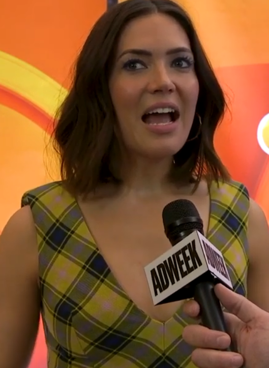 Mandy Moore at NBC Upfront 2019